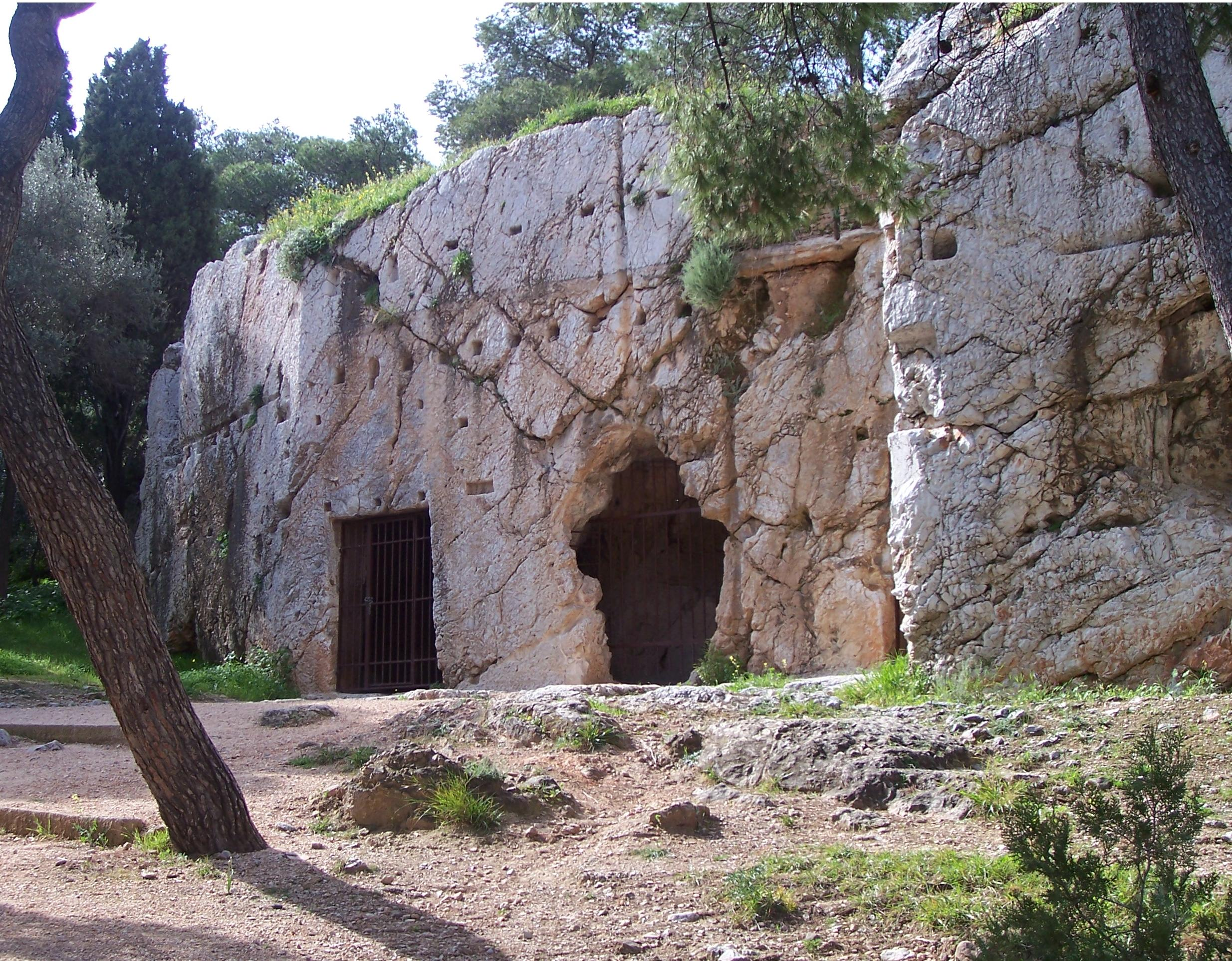 Place commonly called "Prison of Socrates". Pnyx Hill, Athens. The real prison of Socrates, the Ancient Athenian state prison (Desmotherion), was situated in the Agora.